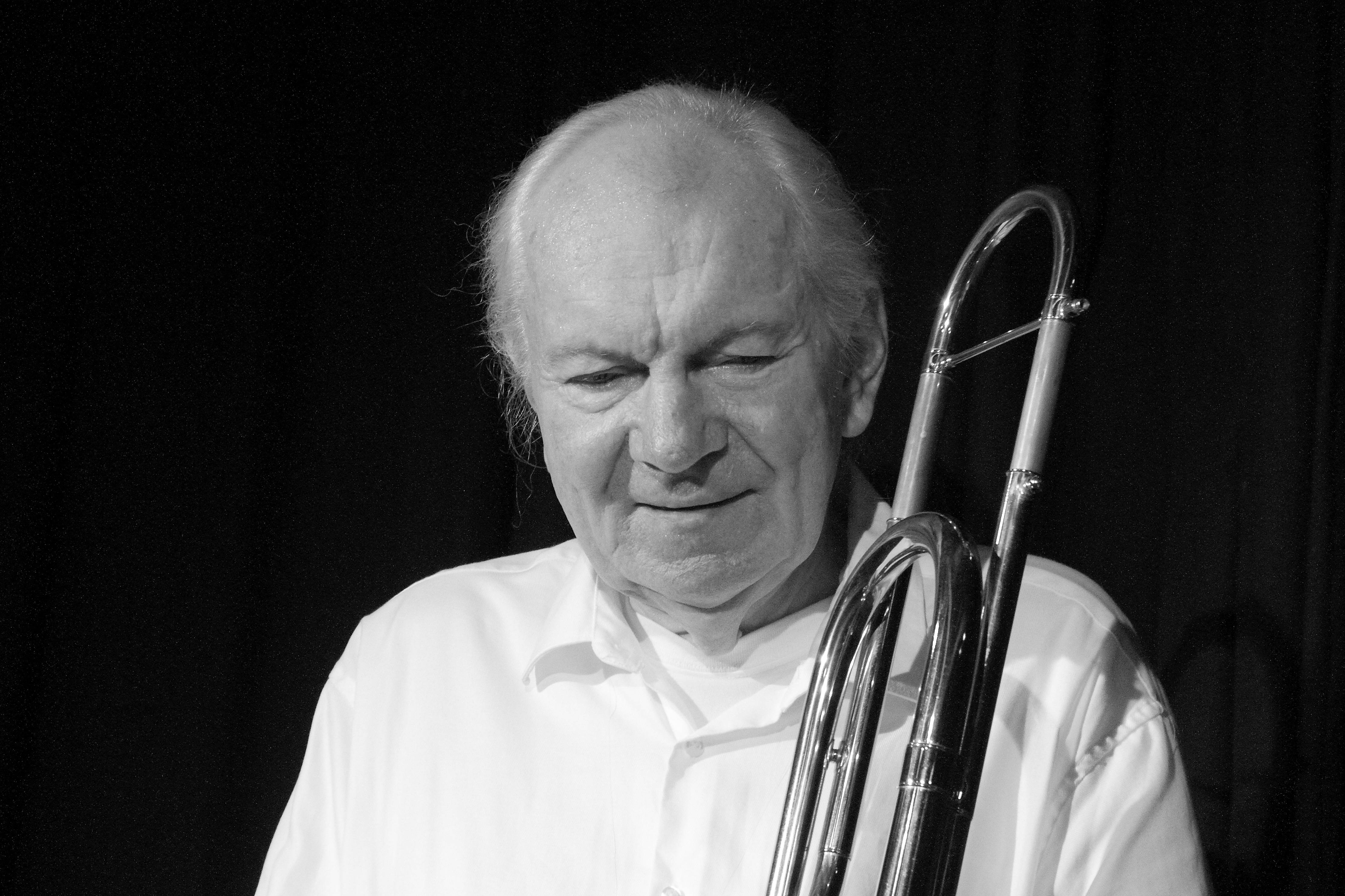 Conny Bauer (tb), Matthias Bauer (db) and Dag Magnus Narvesen (dr) in concert at Club W71, Weikersheim.